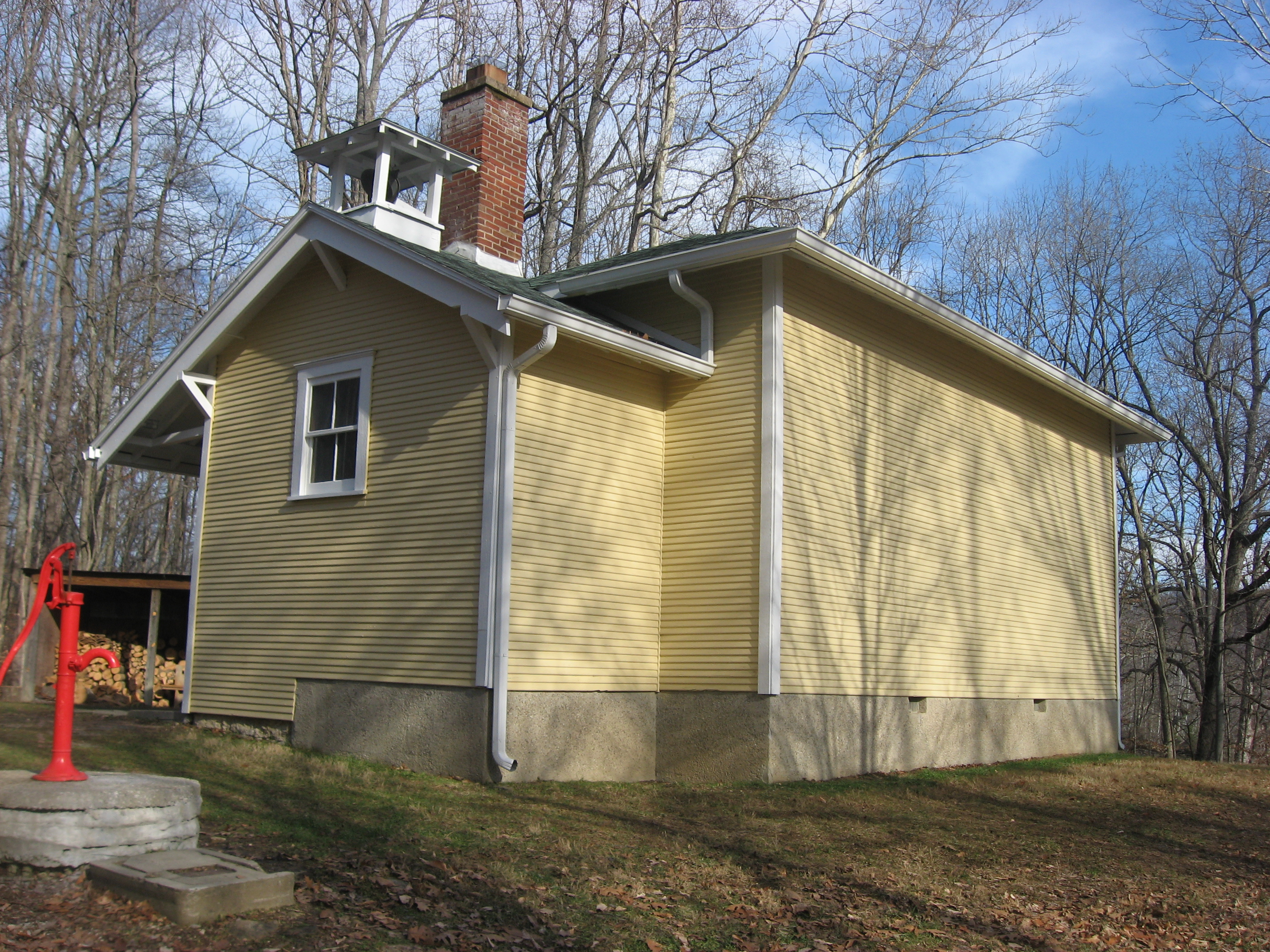 Front and southern side of the Honey Creek School, located at 8383 Low Gap Road north of Unionville in Benton Township, Monroe County, Indiana, United States. Built in 1921, it is listed on the National Register of Historic Places.